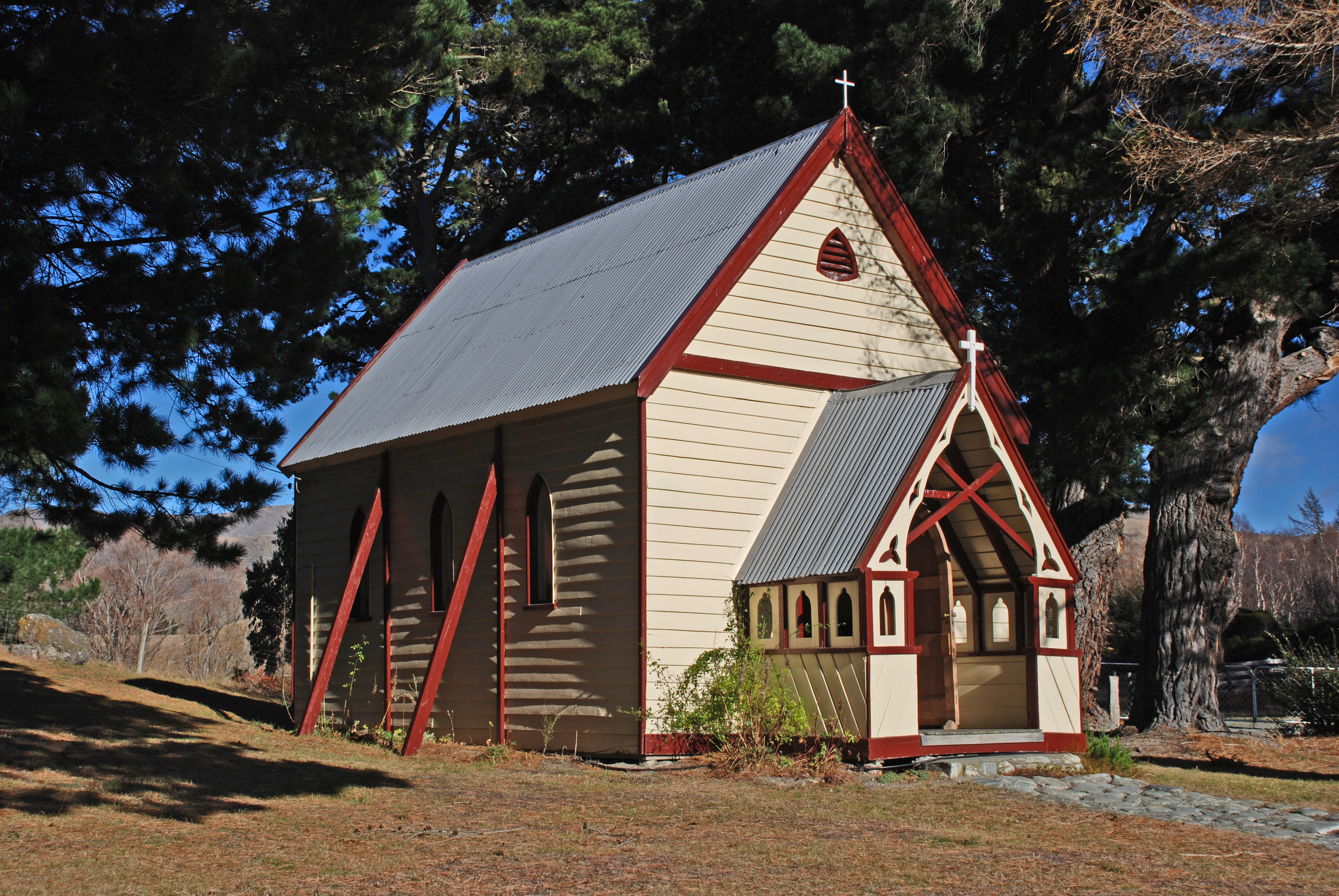 St. Patrick's Church, Burke's Pass, Canterbury, New Zealand, June 2007